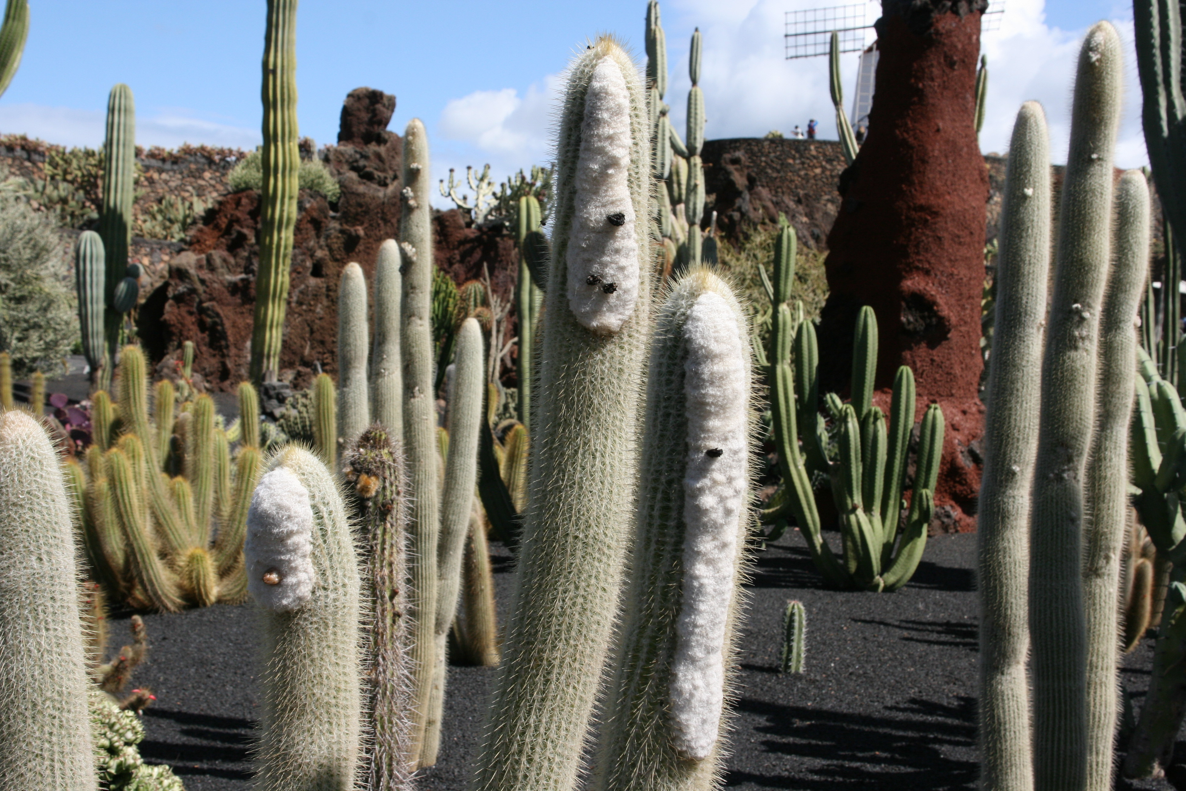 Micranthocereus albicephalus grown in the Botanical Garden “Jardin de Cactus” in Guatiza, Teguise, Lanzarote, Canary Islands